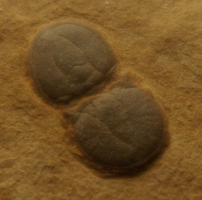 Ptychagnostus Germanus